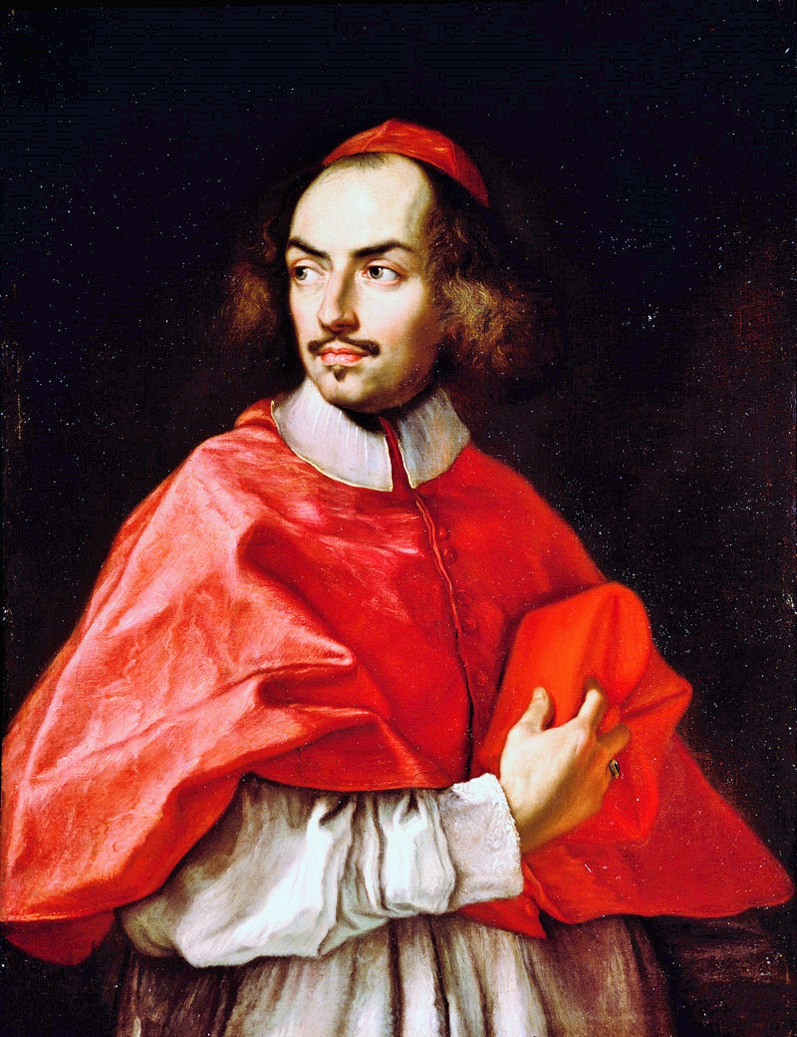 Cardinal Giacomo Rospigliosi (1628-1684)